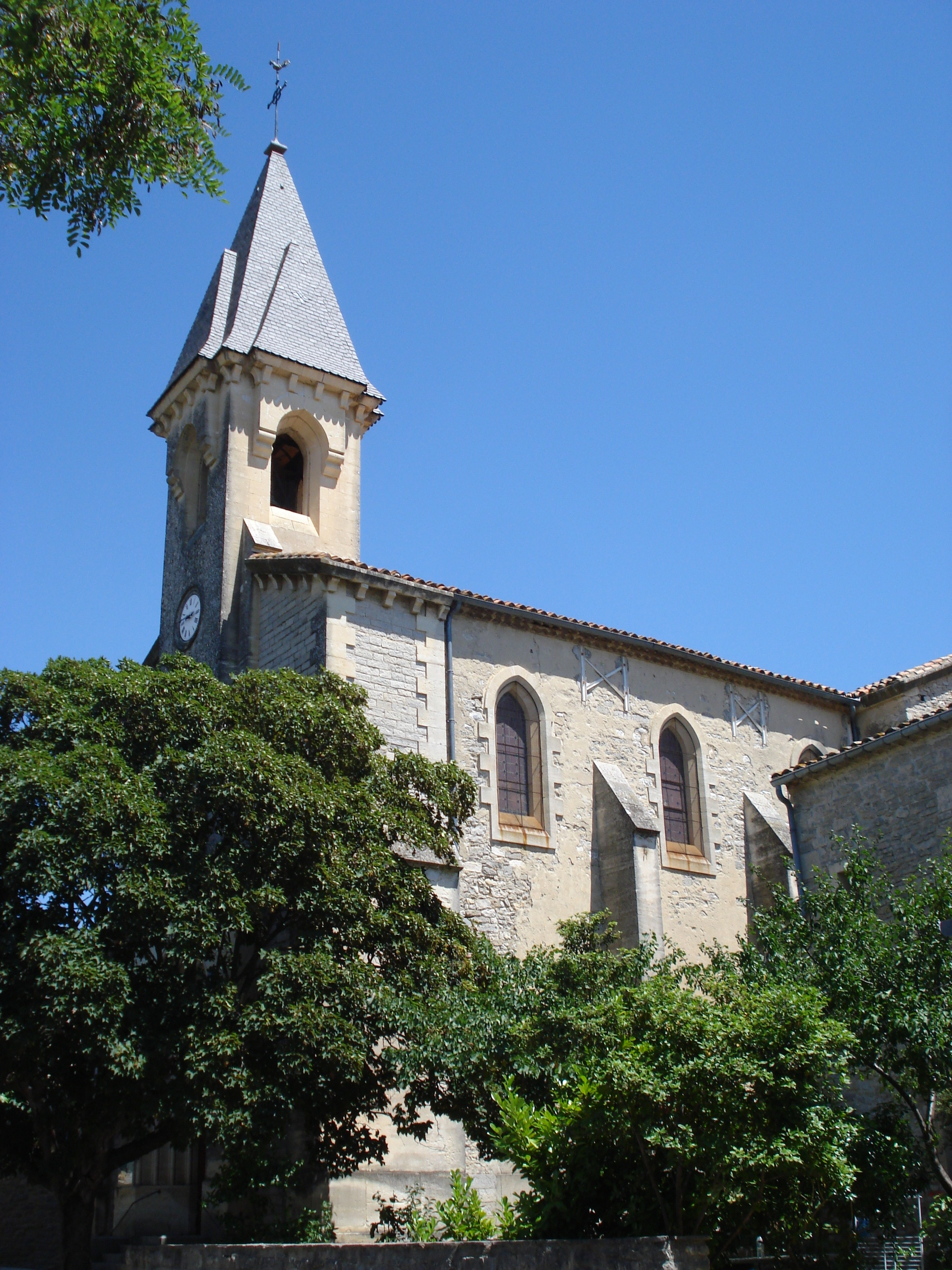 Church Saint-Baudile of Saint-Bauzille-de-Montmel.